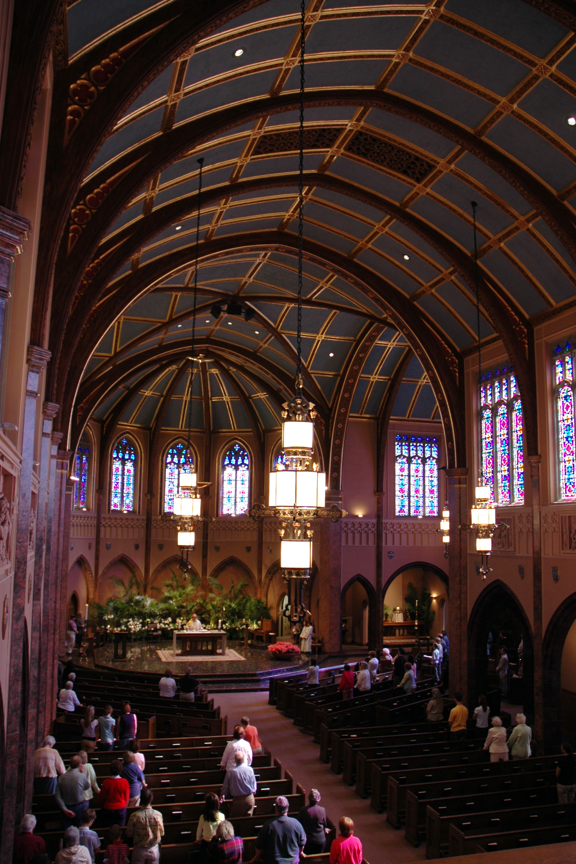 Interior of St. Ambrose Catholic Church in Grosse Pointe Park, Michigan